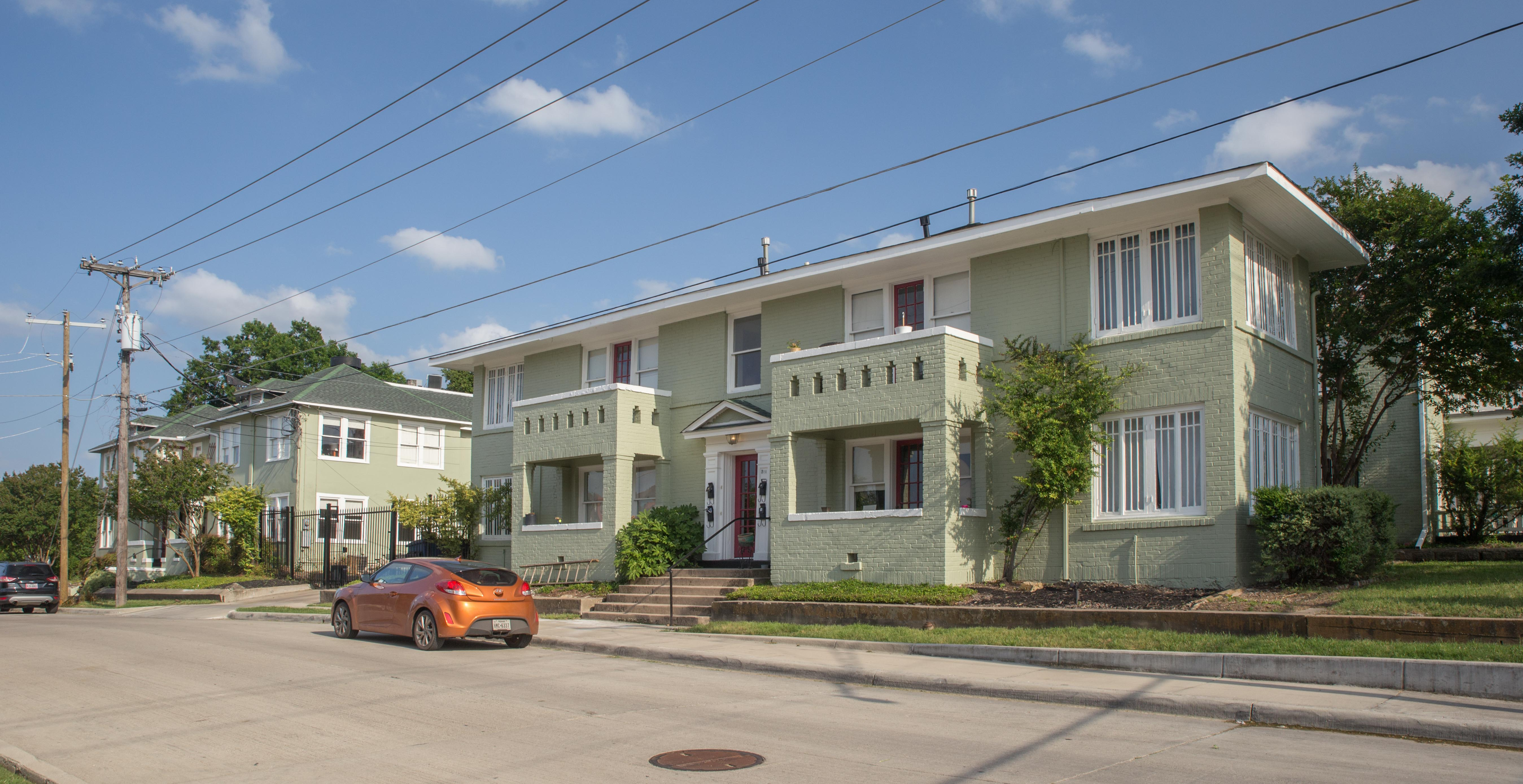 Luda-May Historic District in Fort Worth, Texas